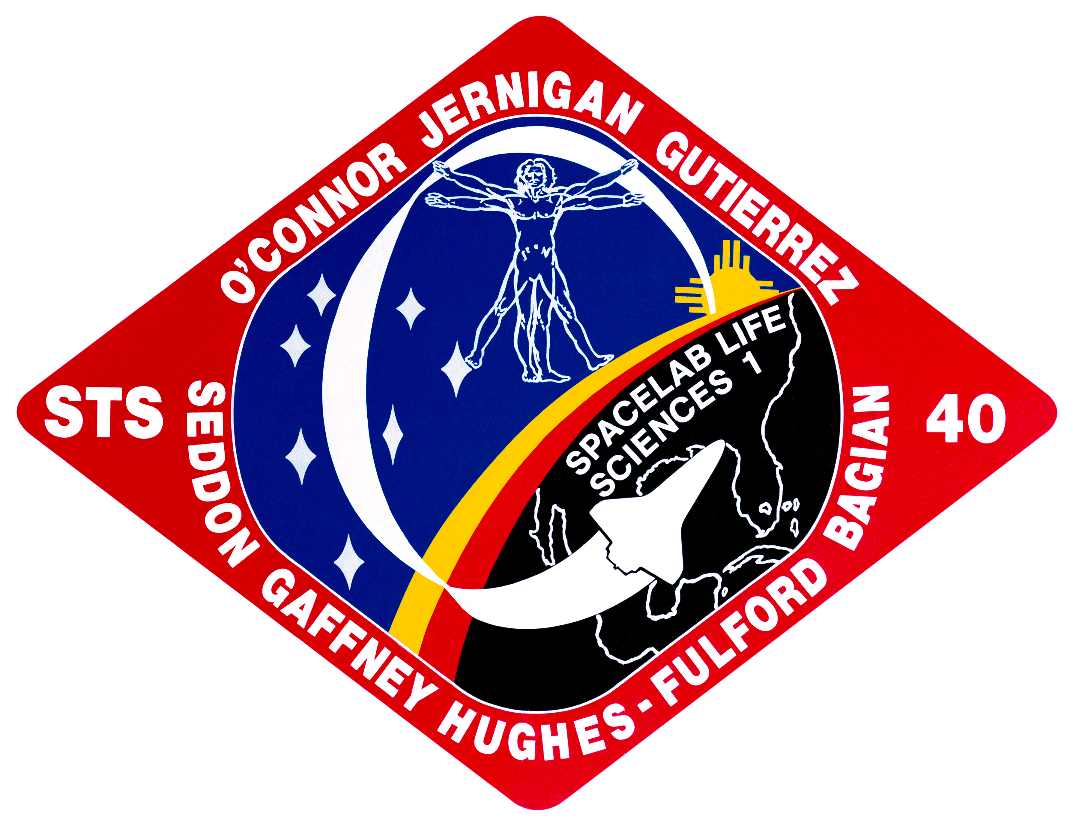 STS-40 Mission Insignia The STS-40 patch makes a contemporary statement focusing on human beings living and working in space. Against a background of the universe, seven silver stars, interspersed about the orbital path of Columbia, represent the seven crew members. The orbiter's flight path forms a double-helix, designed to represent the DNA molecule common to all living creatures. In the words of a crew spokesman, ...(the helix) affirms the ceaseless expansion of human life and American involvement in space while simultaneously emphasizing the medical and biological studies to which this flight is dedicated. Above Columbia, the phrase Spacelab Life Sciences 1 defines both the Shuttle mission and its payload. Leonardo Da Vinci's Vitruvian man, silhouetted against the blue darkness of the heavens, is in the upper center portion of the patch. With one foot on Earth and arms extended to touch Shuttle's orbit, the crew feels, he serves as a powerful embodiment of the extension of human inquiry from the boundaries of Earth to the limitless laboratory of space. Sturdily poised amid the stars, he serves to link scentists on Earth to the scientists in space asserting the harmony of efforts which produce meaningful scientific spaceflight missions. A brilliant red and yellow Earth limb (center) links Earth to space as it radiates from a native American symbol for the sun. At the frontier of space, the traditional symbol for the sun vividly links America's past to America's future, the crew states. Beneath the orbiting Shuttle, darkness of night rests peacefully over the United States. Drawn by artist Sean Collins, the STS 40 Space Shuttle patch was designed by the crewmembers for the flight.